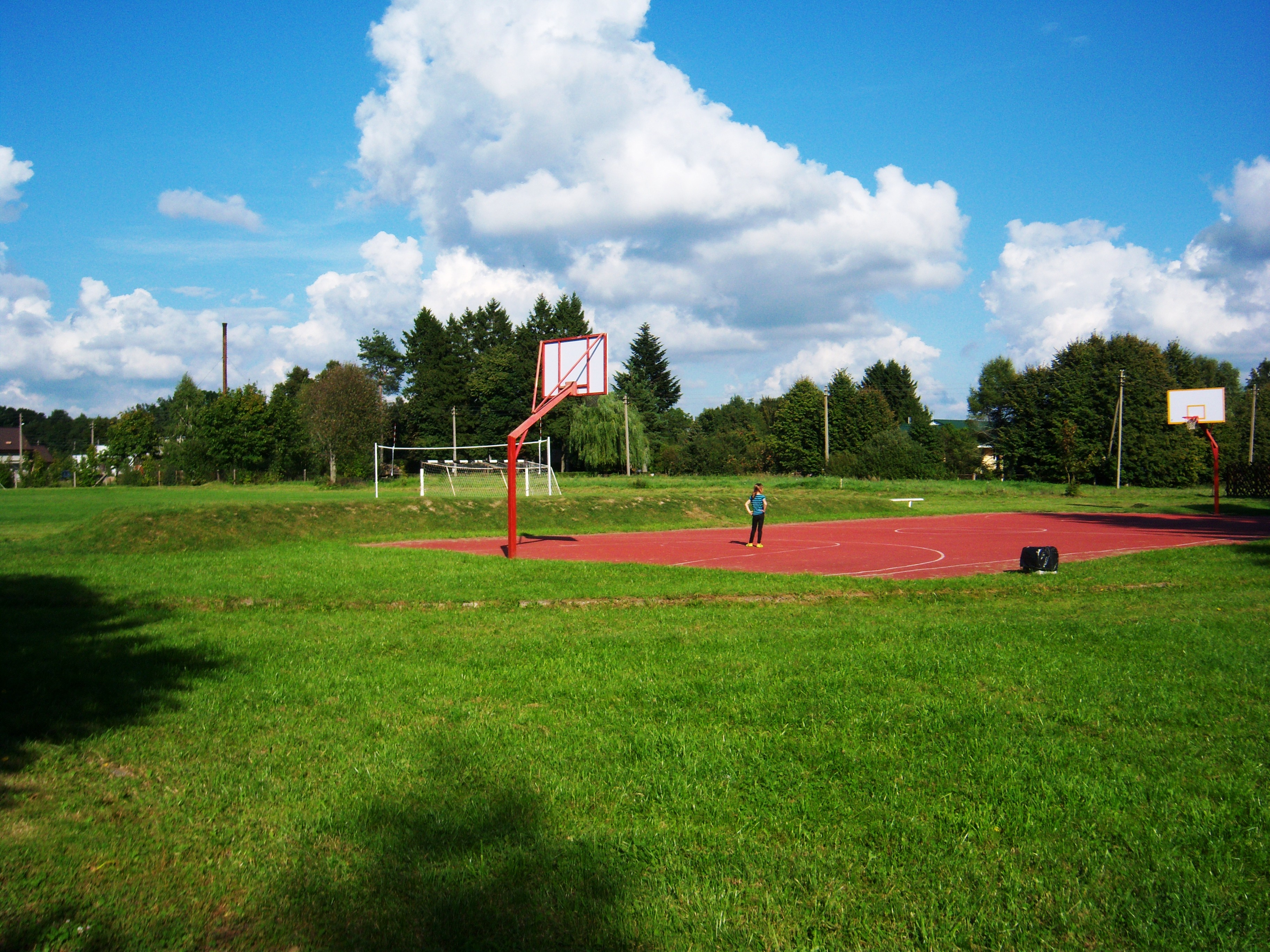 Lapiai school, Klaipėda District. Lithuania